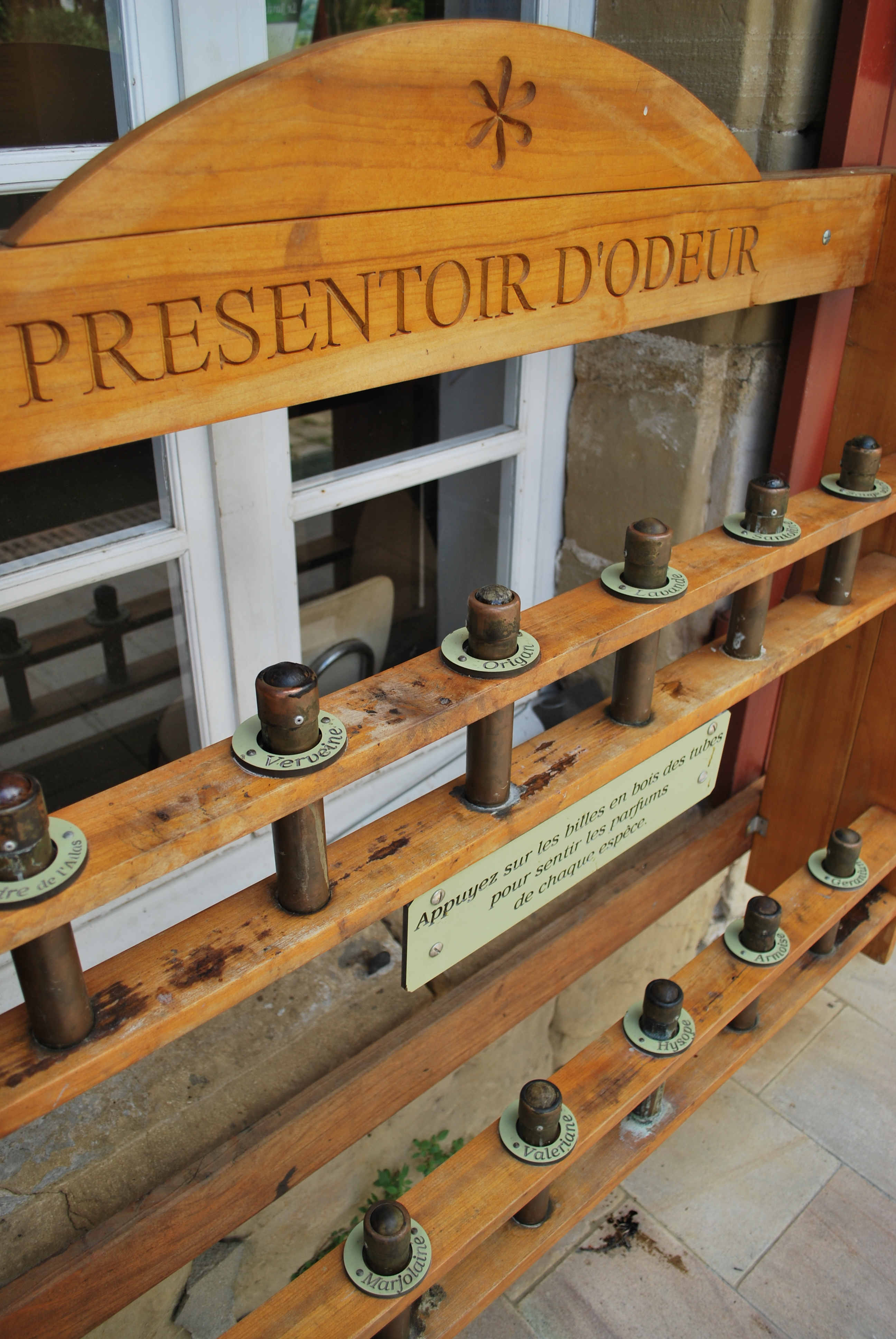 Twelve wooden capsules soaked with smell